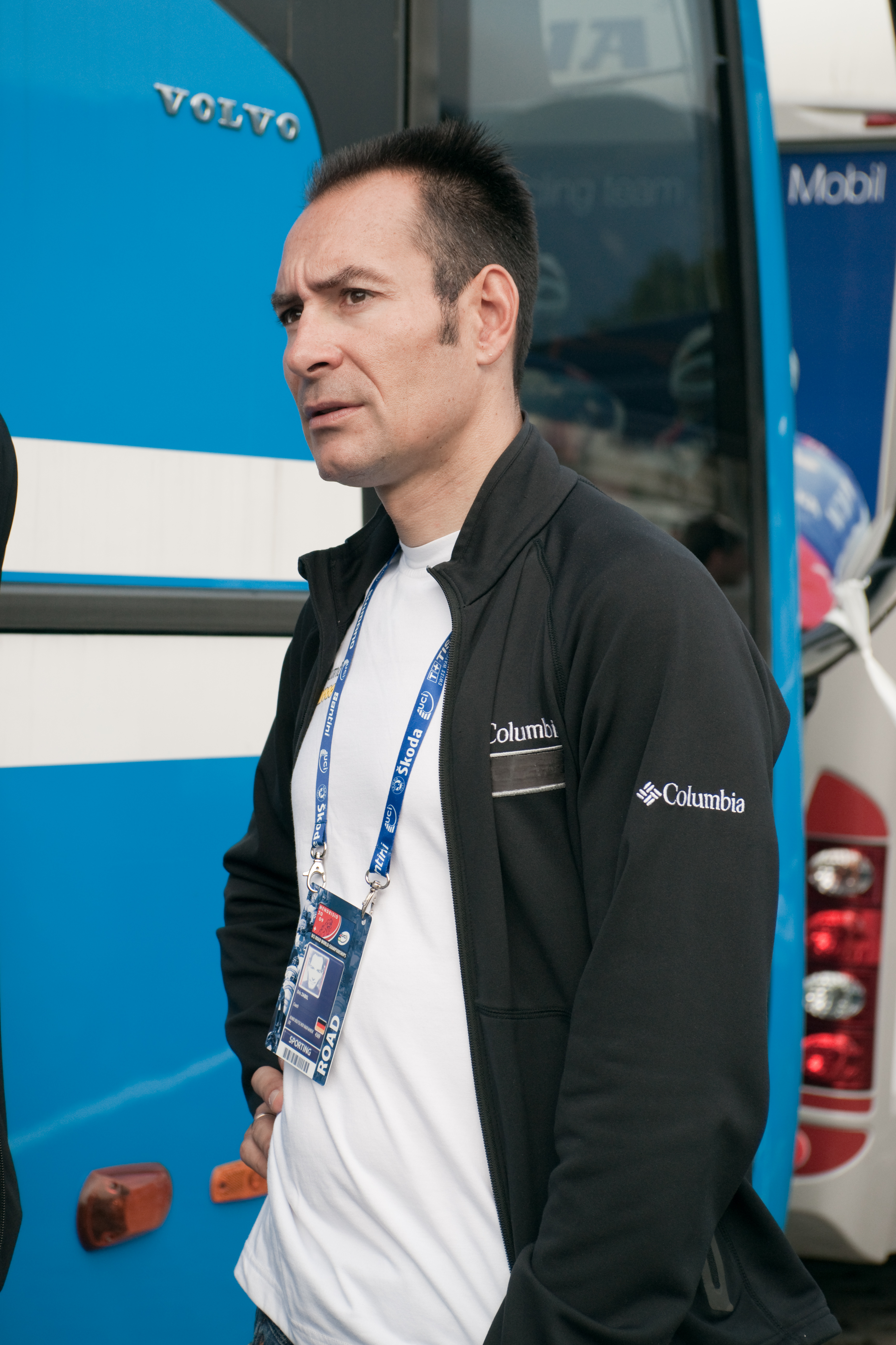 Erik Zabel during the 2009 Road World Championships in Mendrisio, Switzerland.